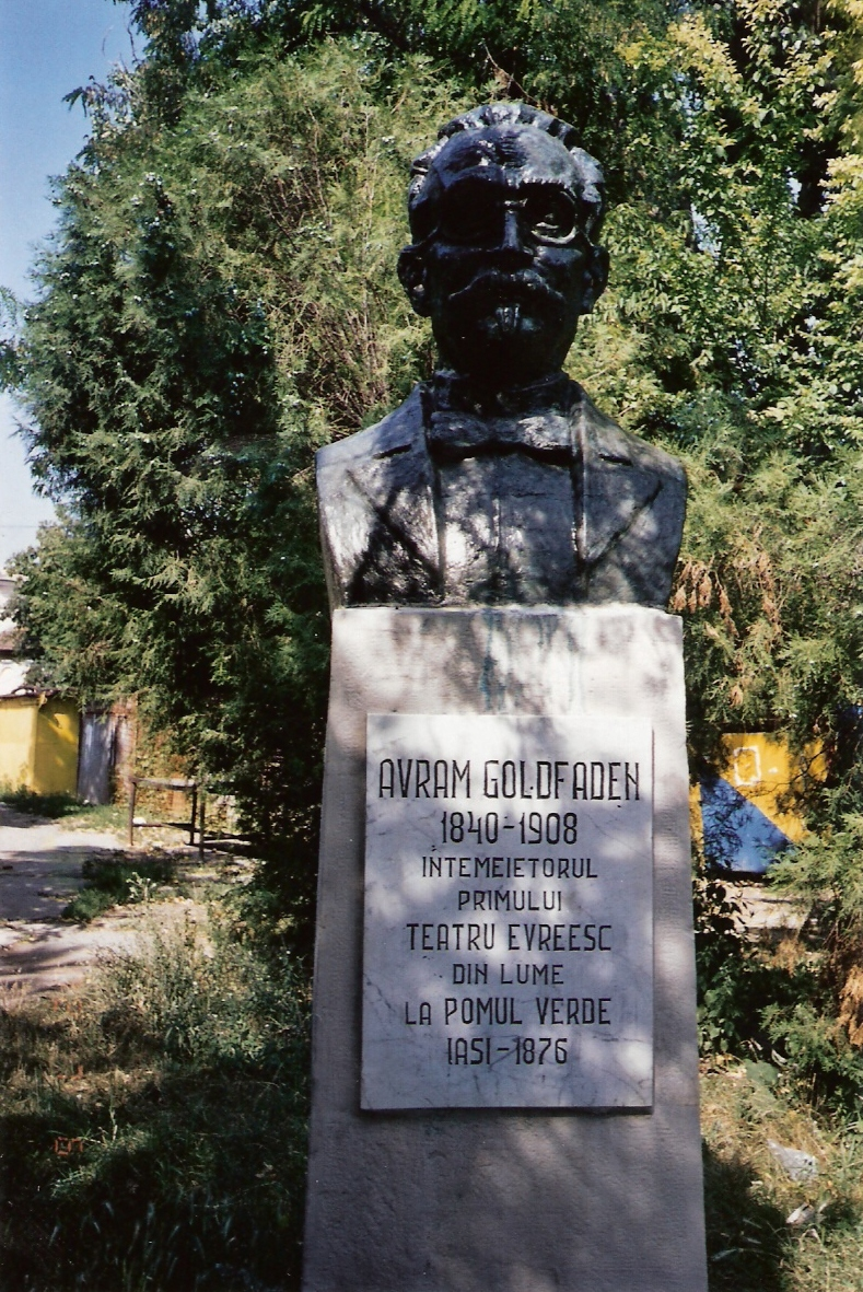 Monument of Abraham Goldfaden in Iasi, Romania